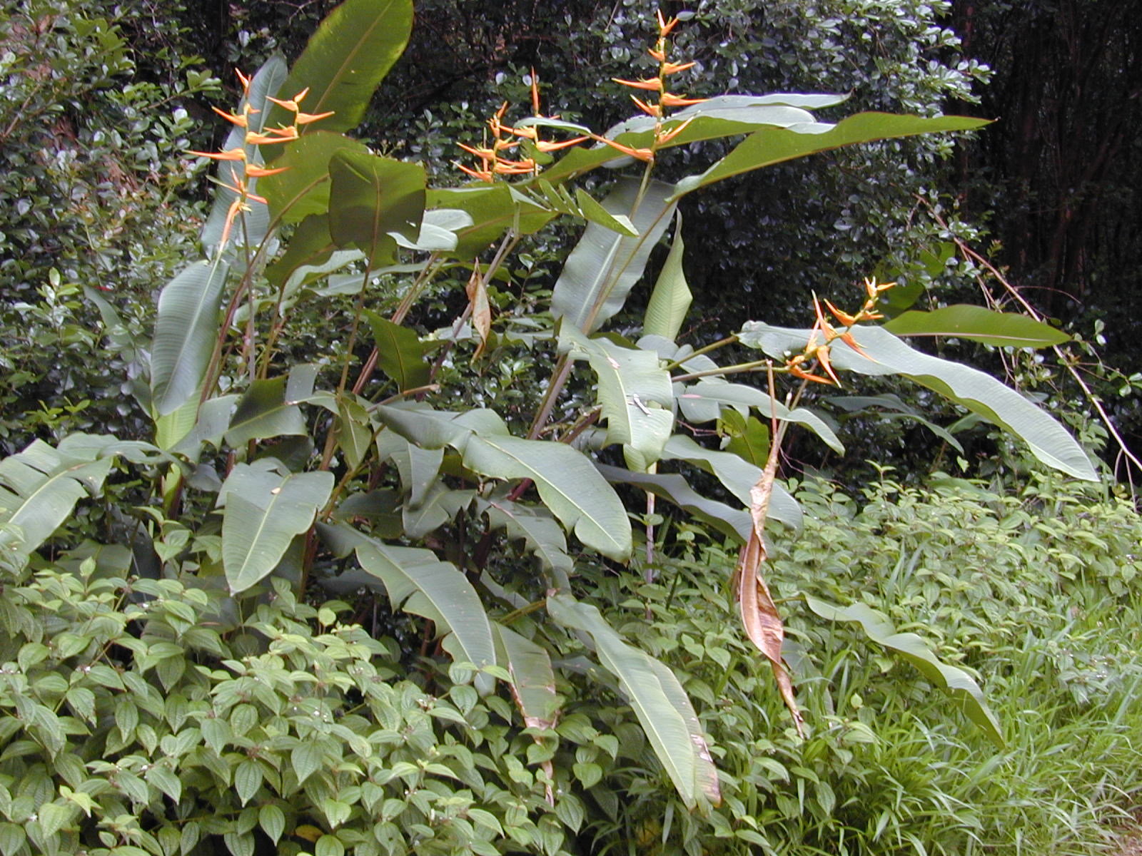 Heliconia latispatha (habit). Location: Maui, Wahinepee